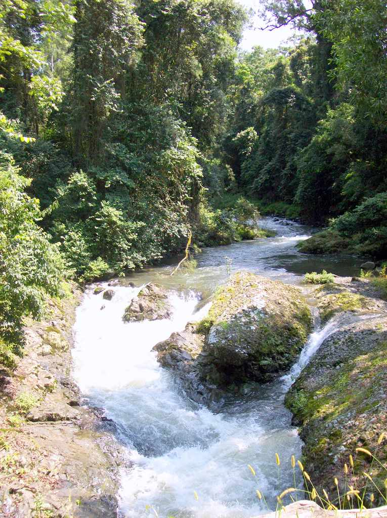 Allyn River, from the forest bridge